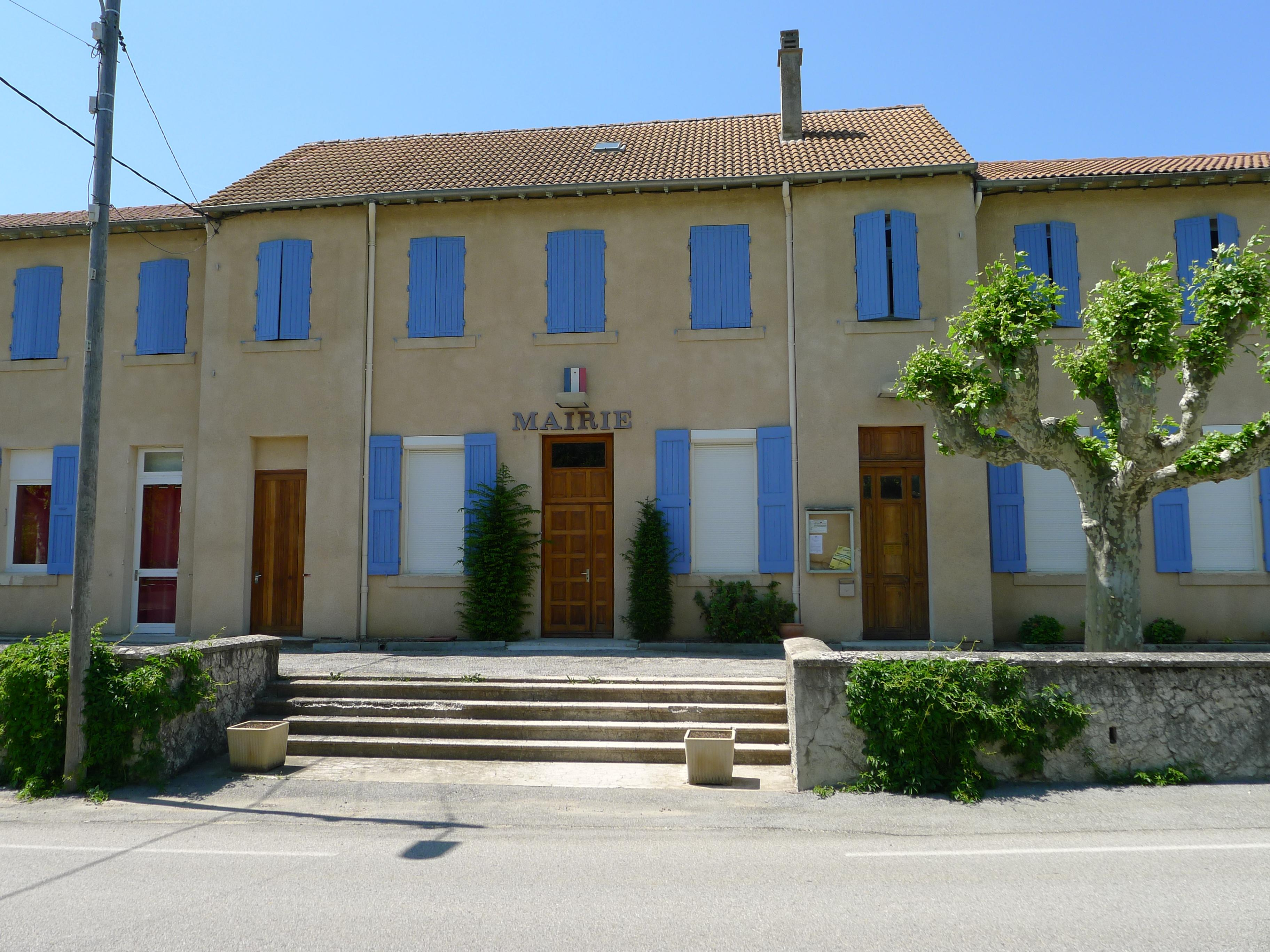 Town hall of Rochefort-Samson - Drôme - France